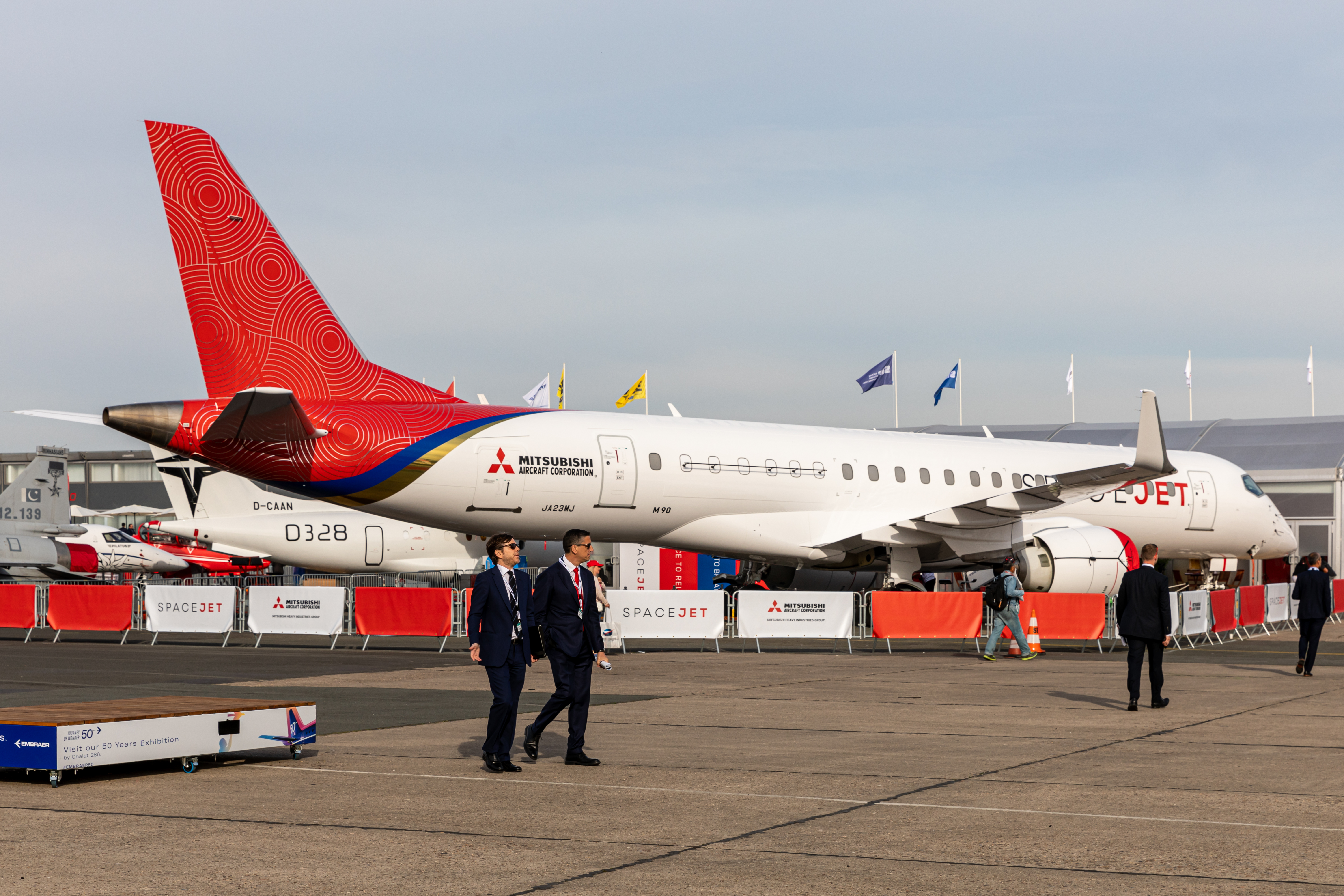 Misubishi SpaceJet M90 at Paris Air Show 2019